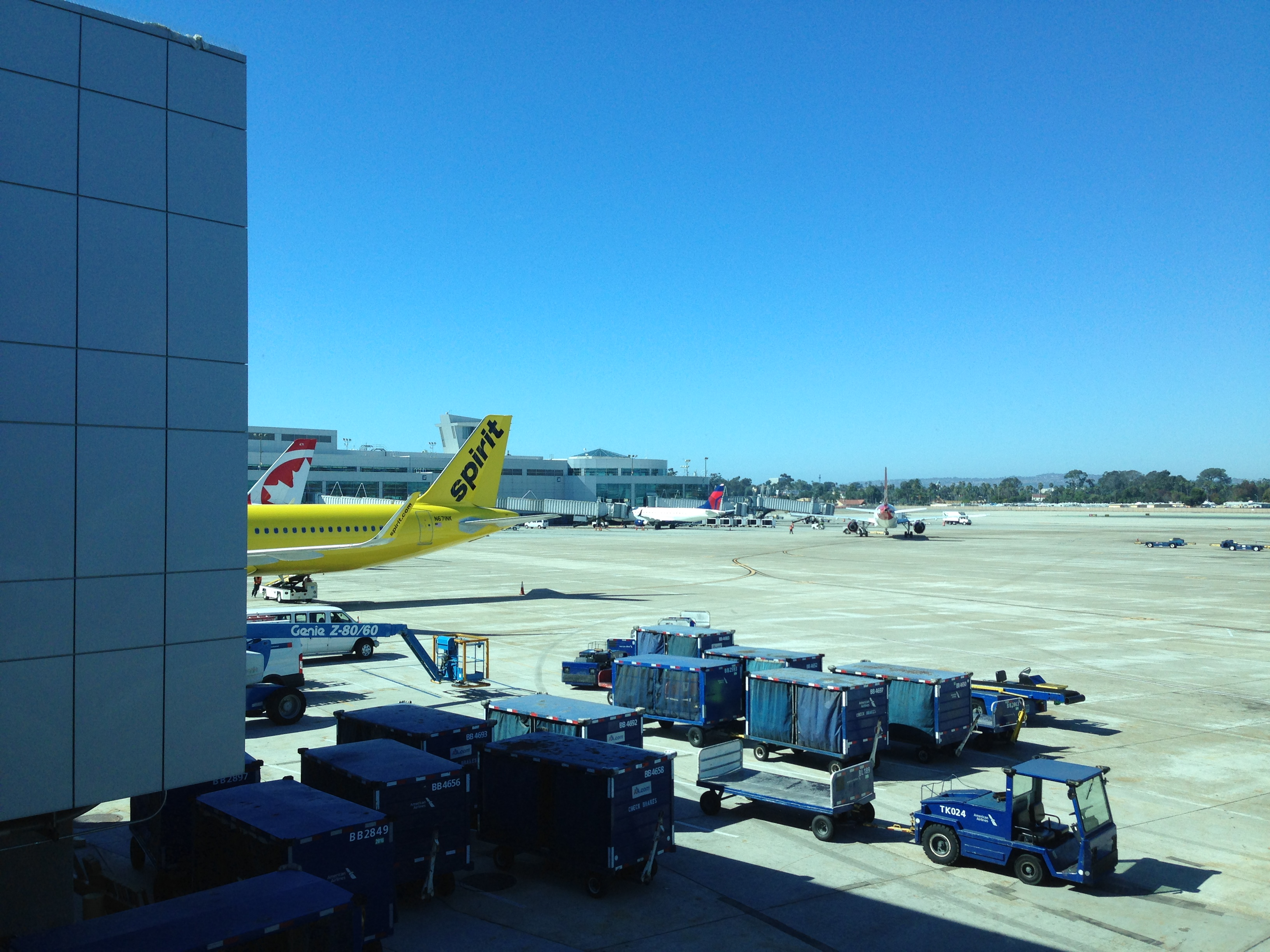 A view of Terminal 2